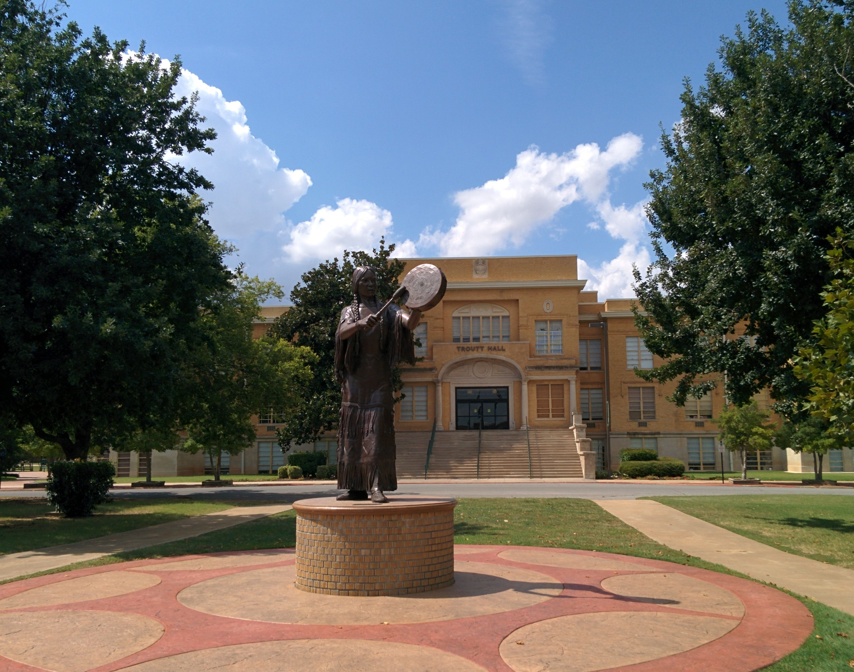 Oklahoma College for Women Historic District Troutt Hall is one of the contribution buildings a part of the Oklahoma College for Women Historic District.